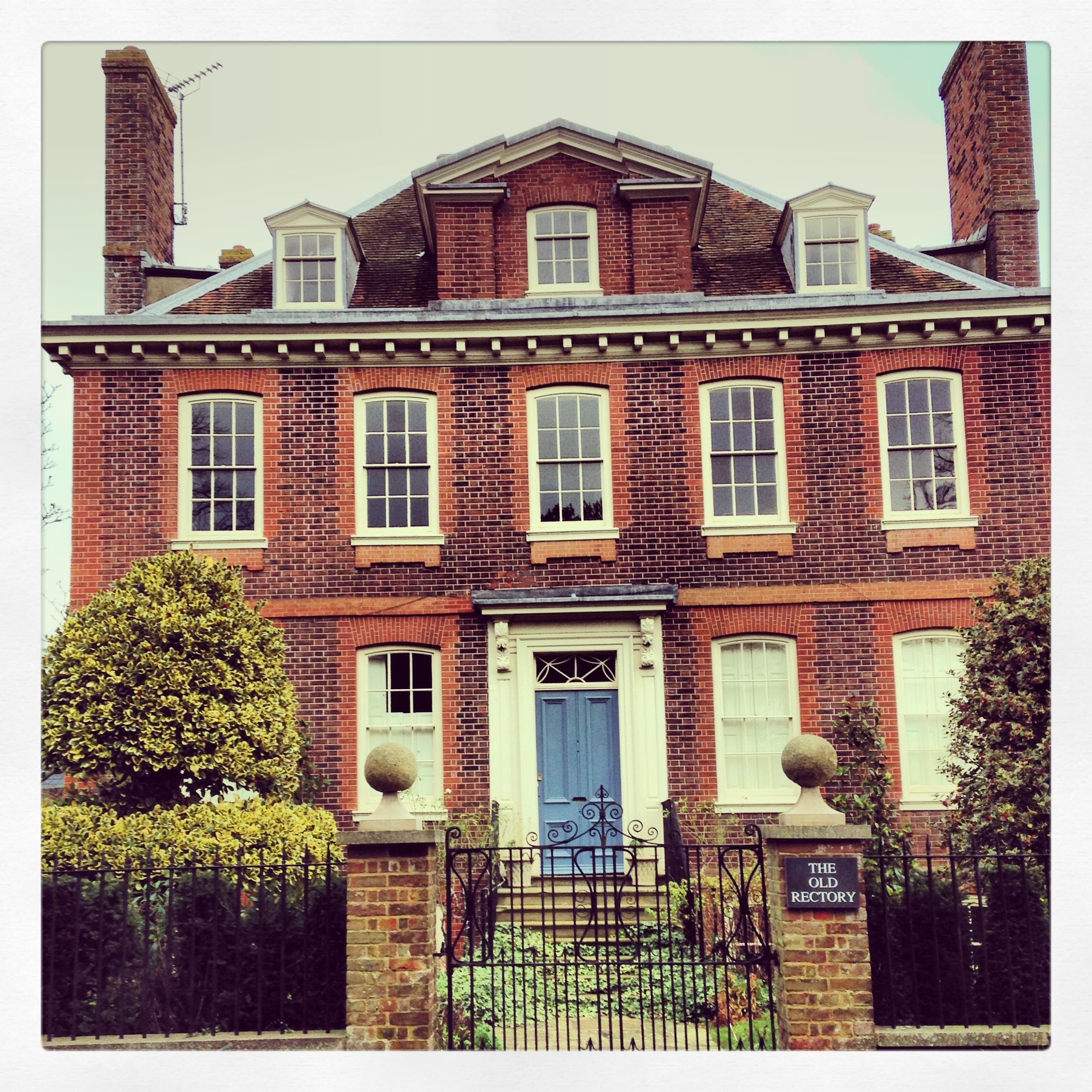 The Old Rectory, Wickhambreaux - Westerly Aspect